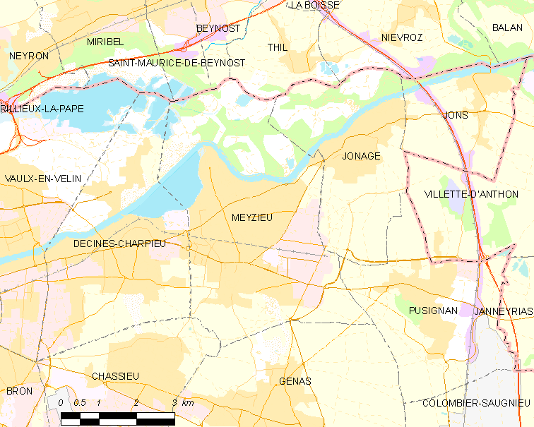 Map of French municipality